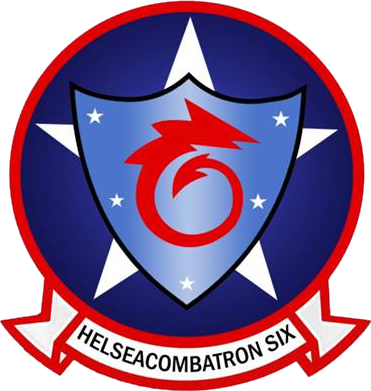 Emblem of the U.S. Navy Helicopter Sea Combat Squadron 6 (HSC-6) "Indians".